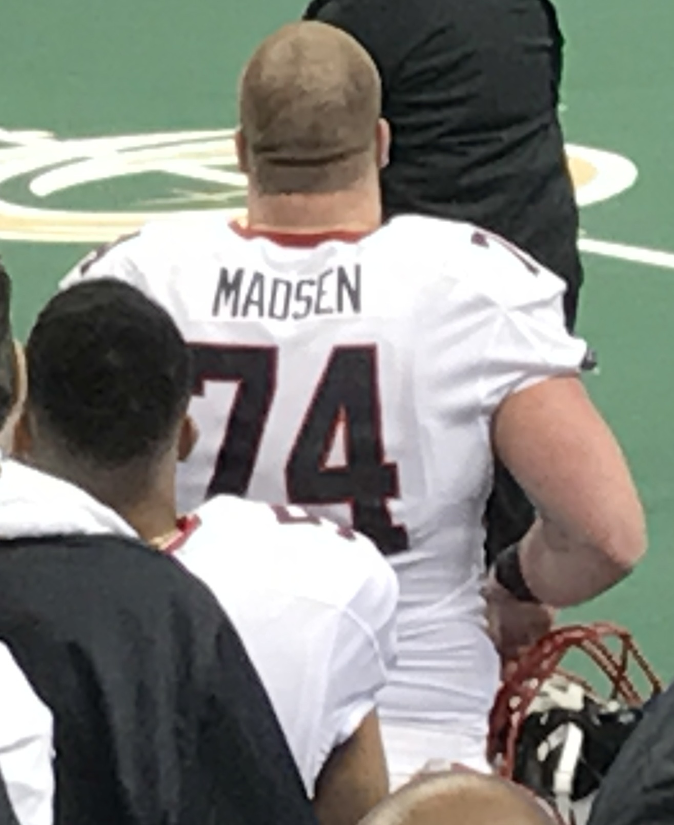 Joe Madsen on the bench